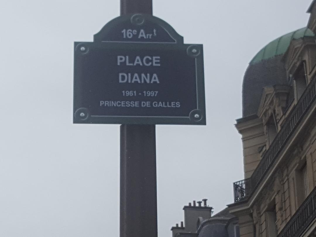 Princess Diana square in Paris (French tribute to Lady Di).